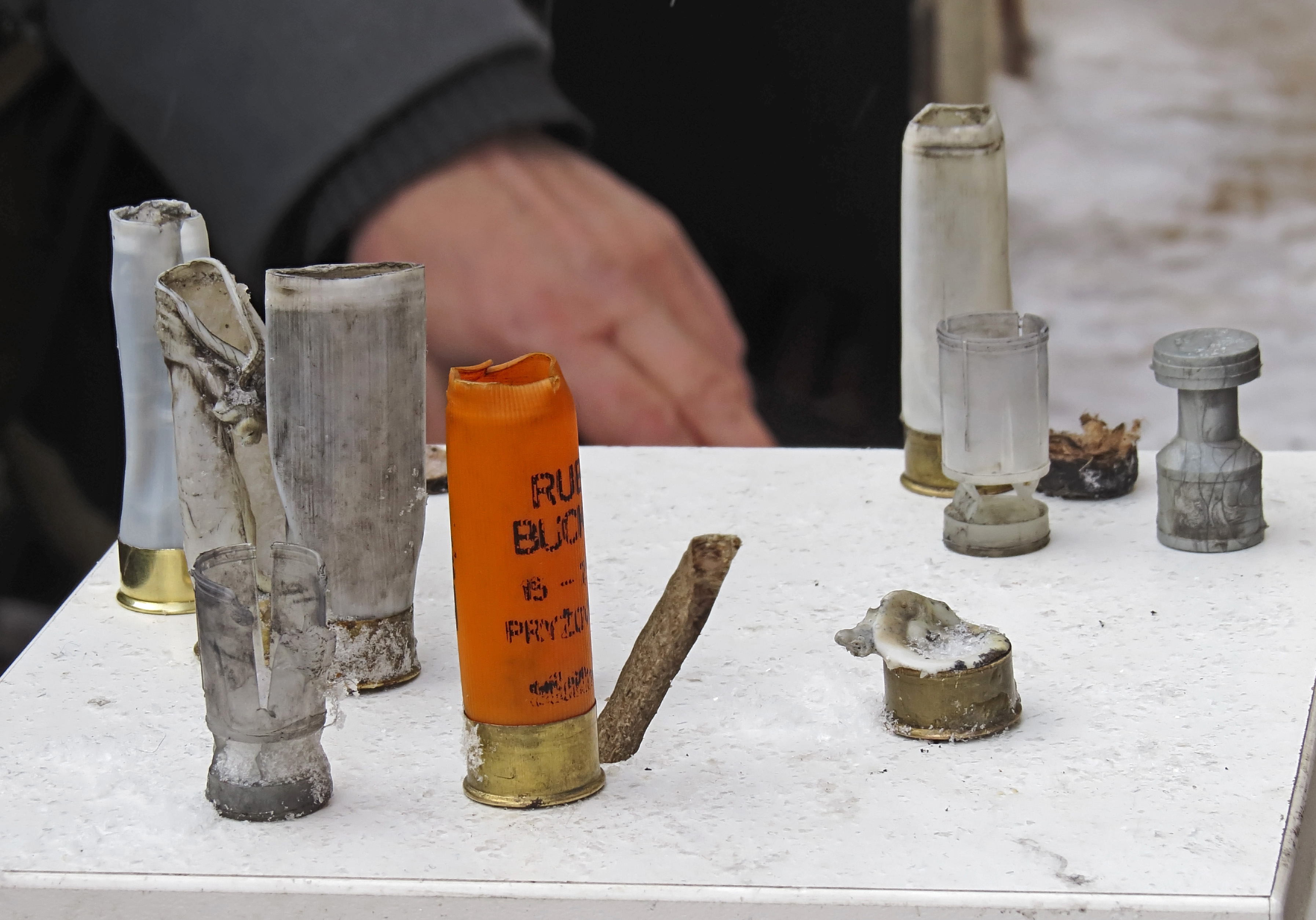 Euromaidan in Kiev. Shells and bullet of ammunition used by "Berkut"